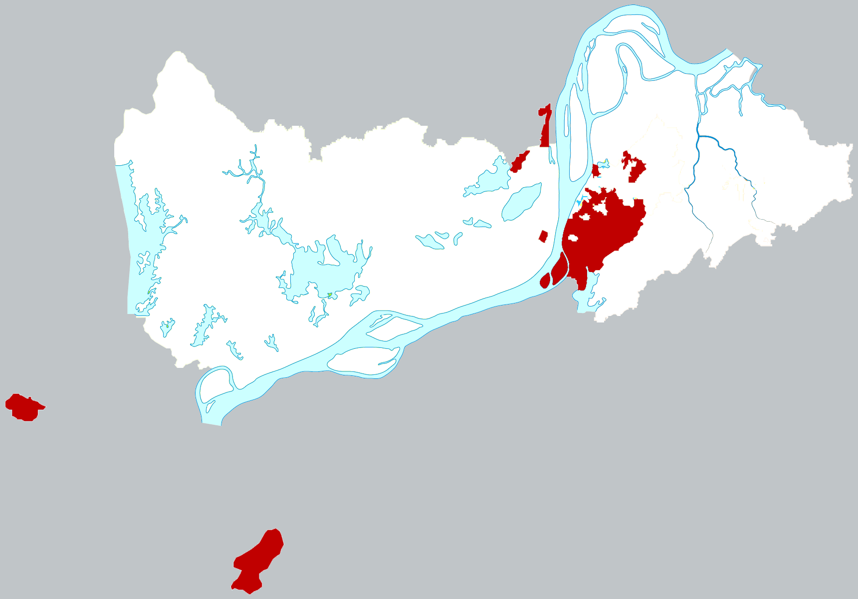 Location of Yuejiang district in Tongling city, China